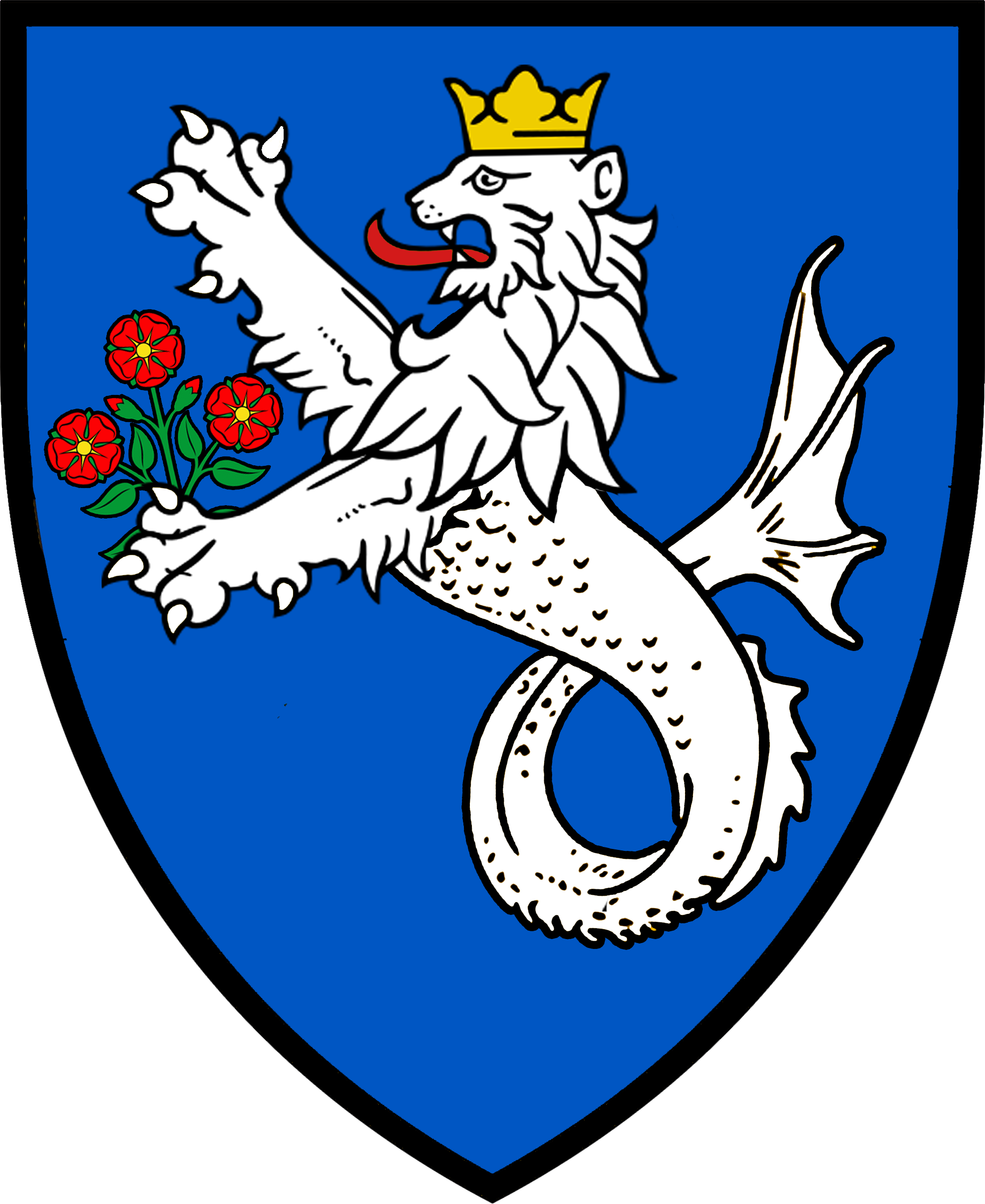 Vešeleni erb